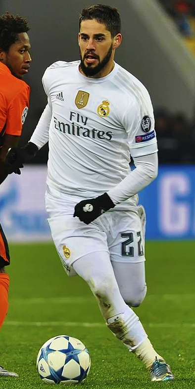 Isco 2015